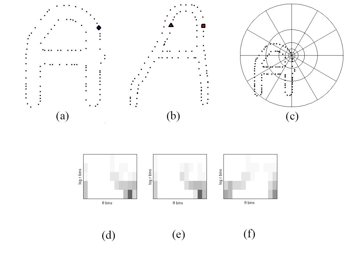 Example demonstrating shape context (see Shape context for more detail).